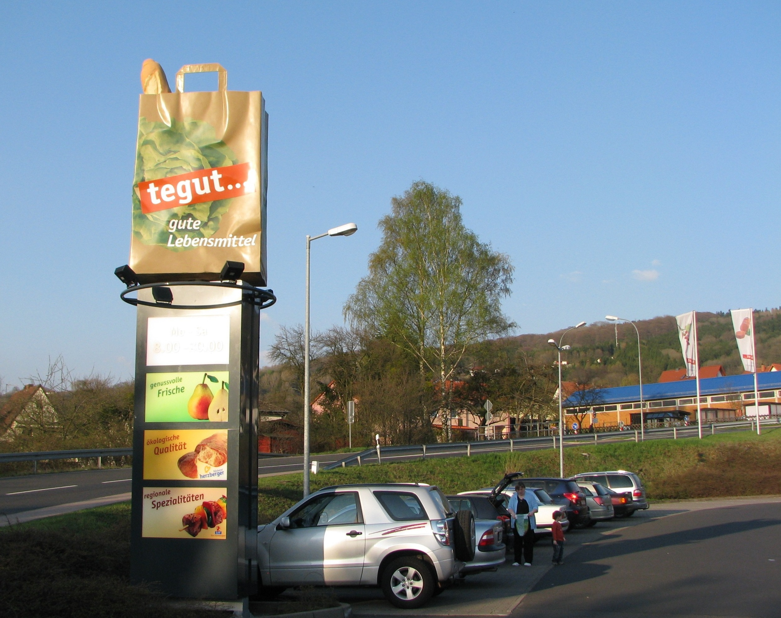 Shop of tegut in Tann (Rhön), Germany